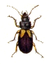 Gynandromorphus etruscus, from Calwer's Käferbuch, Table 5, Picture 20. Taxonomy was updated to 2008, using mostly the sites Fauna Europaea and BioLib. Please contact Sarefo if the determination is wrong!